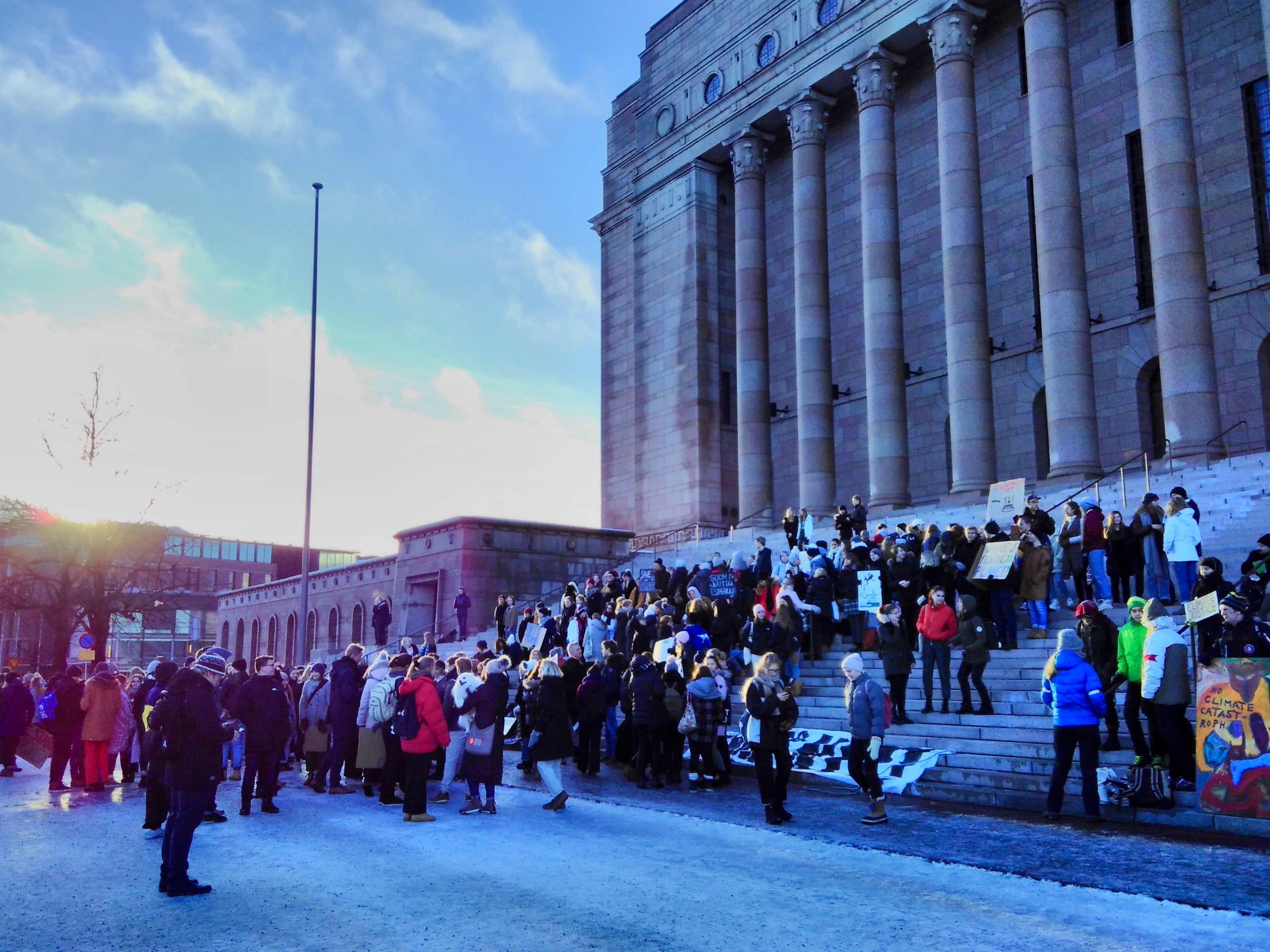 School strike for climate in front of the Finnish parliament, on 11 January 2019.